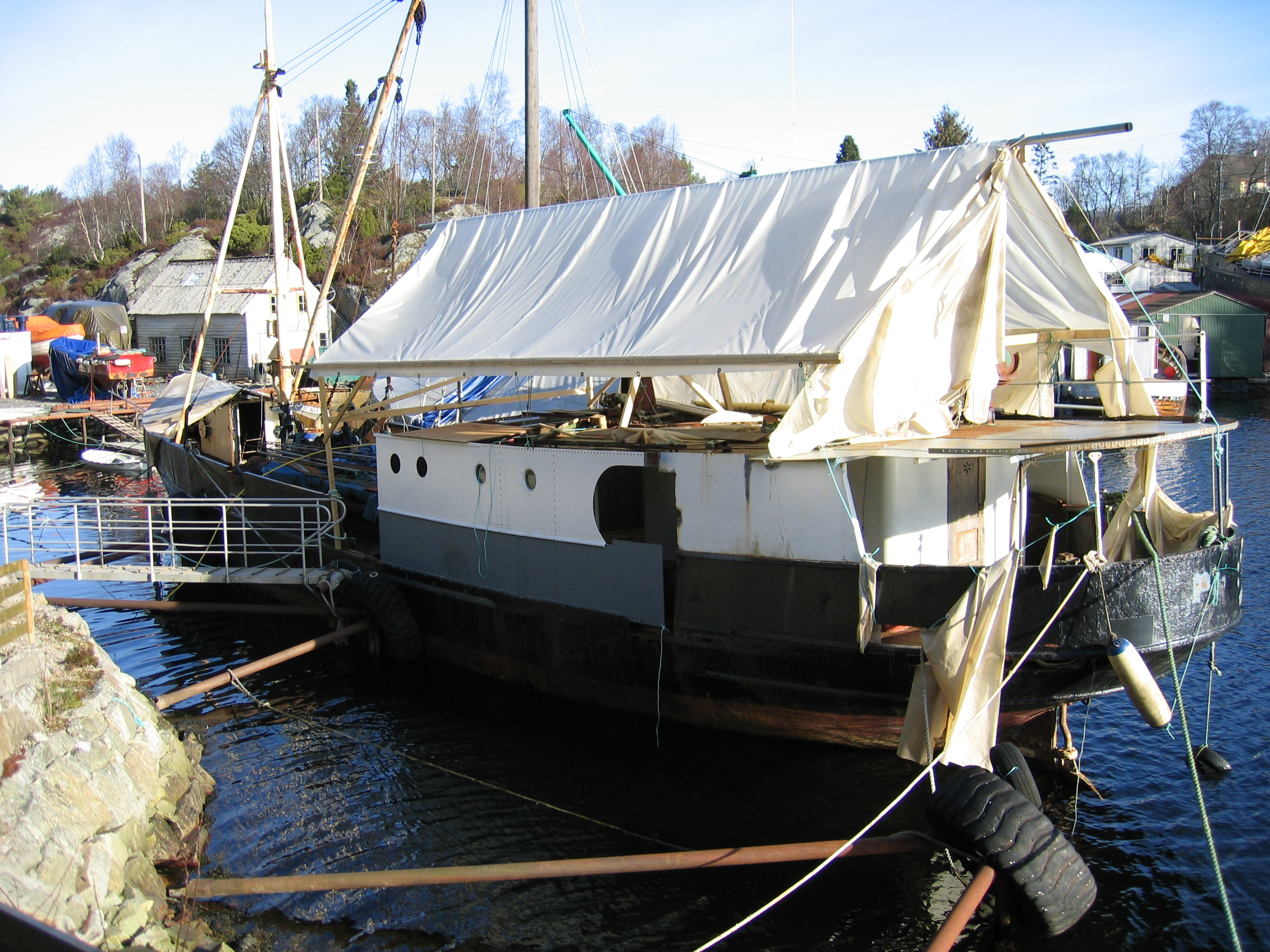 MS Tysnes, built 1930.